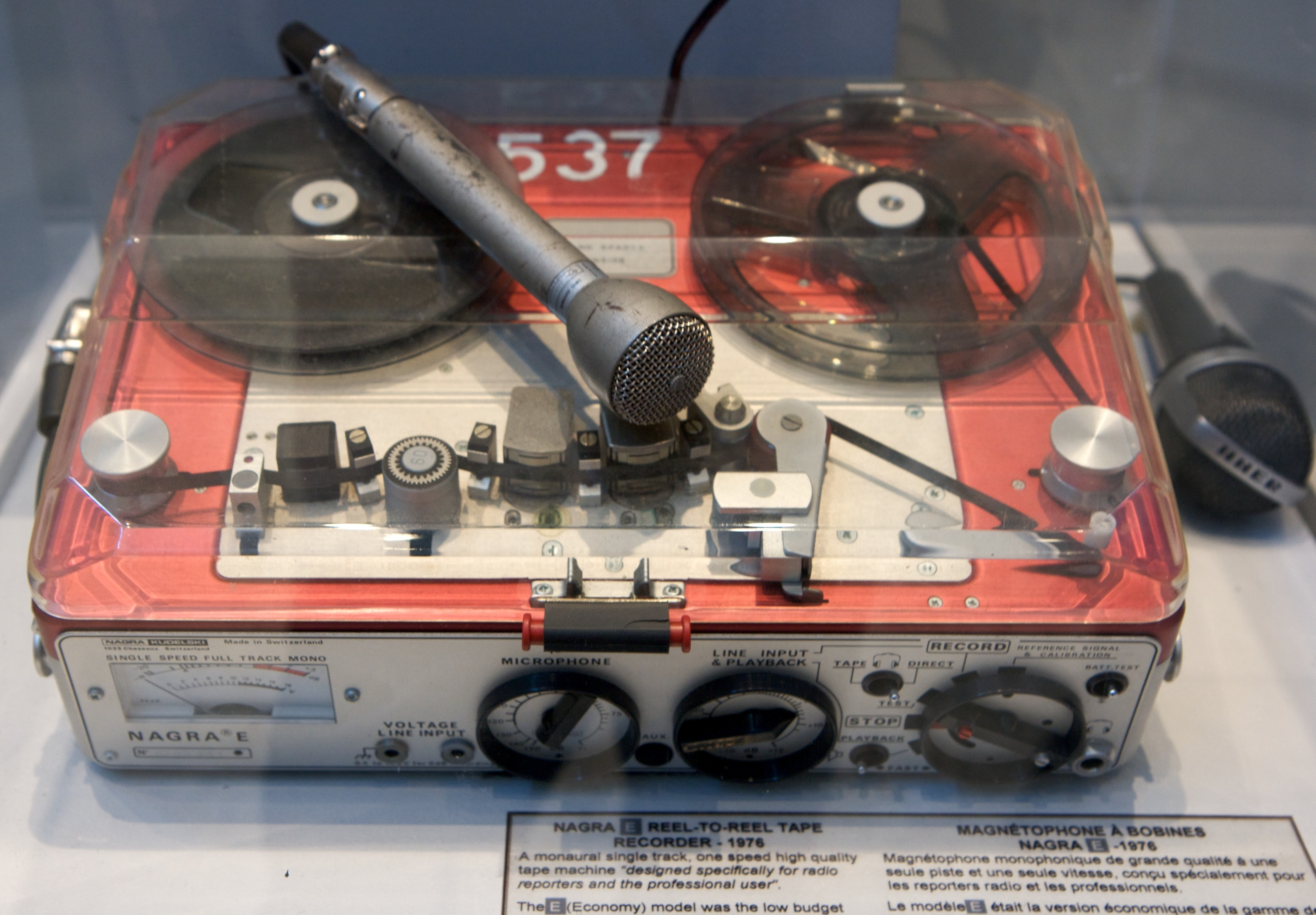 Nagra E (Economy) - reel-to-reel tape recorder - 1976 A monaural single track, one speed high quality tape machine “designed specifically for radio reporters and the professional user”.